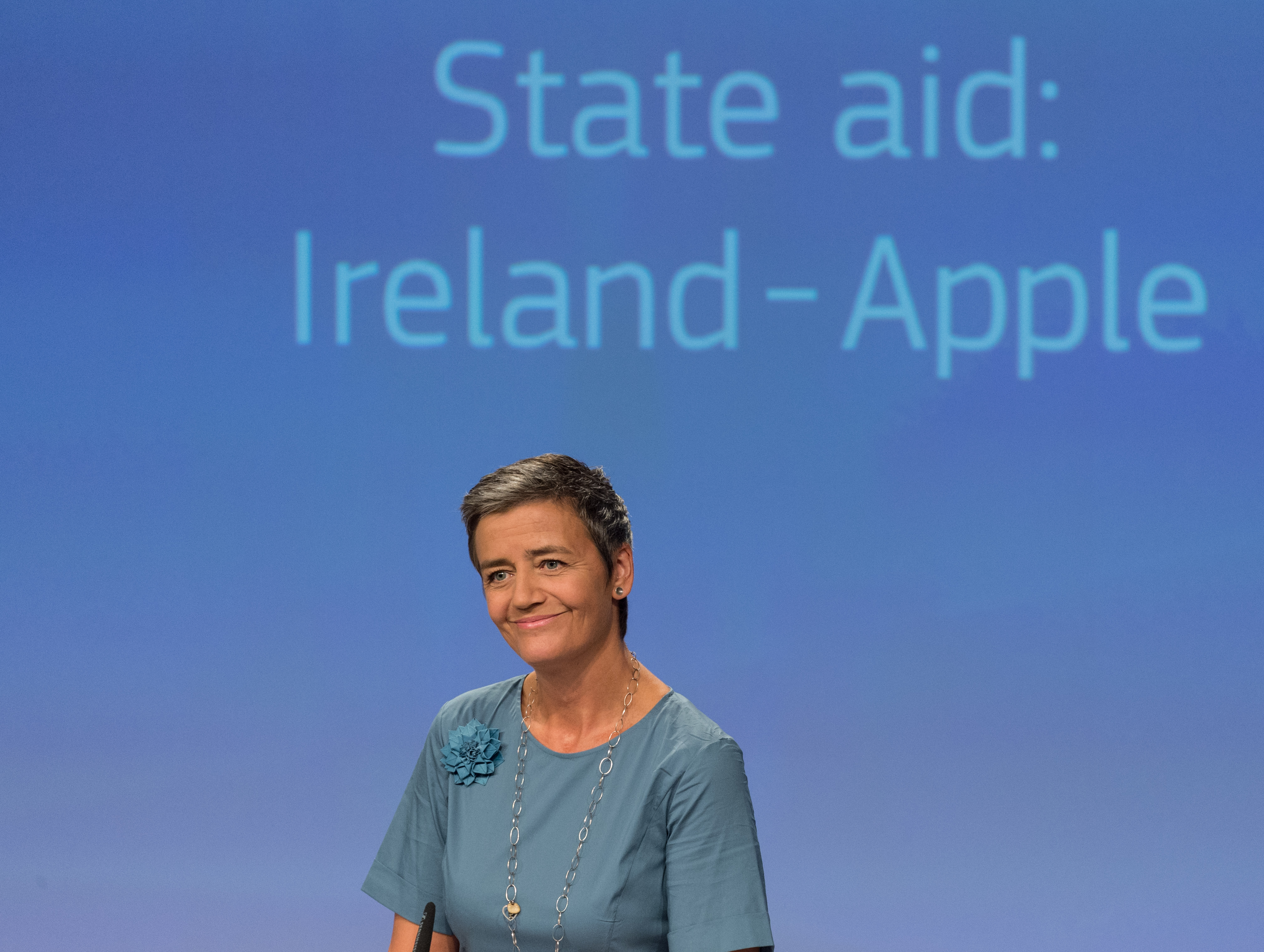 Margrethe Vestager at the announcement of the EU Commission findings against Apple in Ireland for illegal State aid.